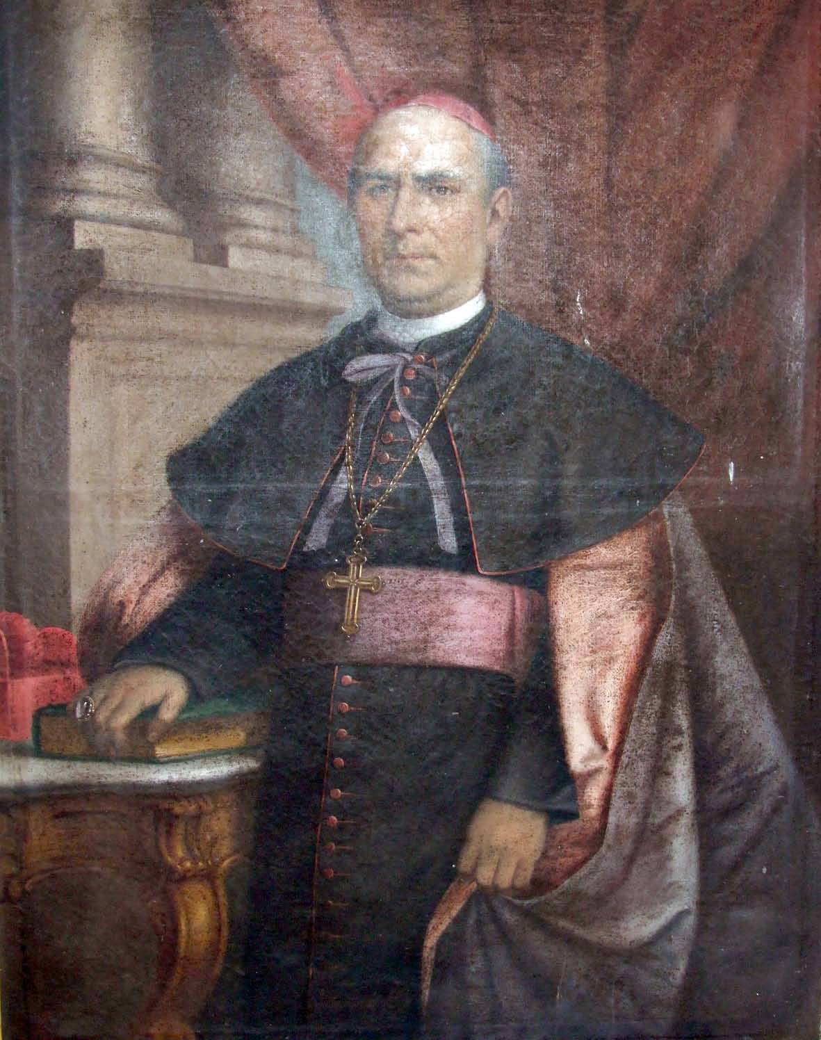 Portrait of D. José Dias Correia de Carvalho, Bishop of Viseu (1889), by António José Pereira (Greater Seminary of Viseu).